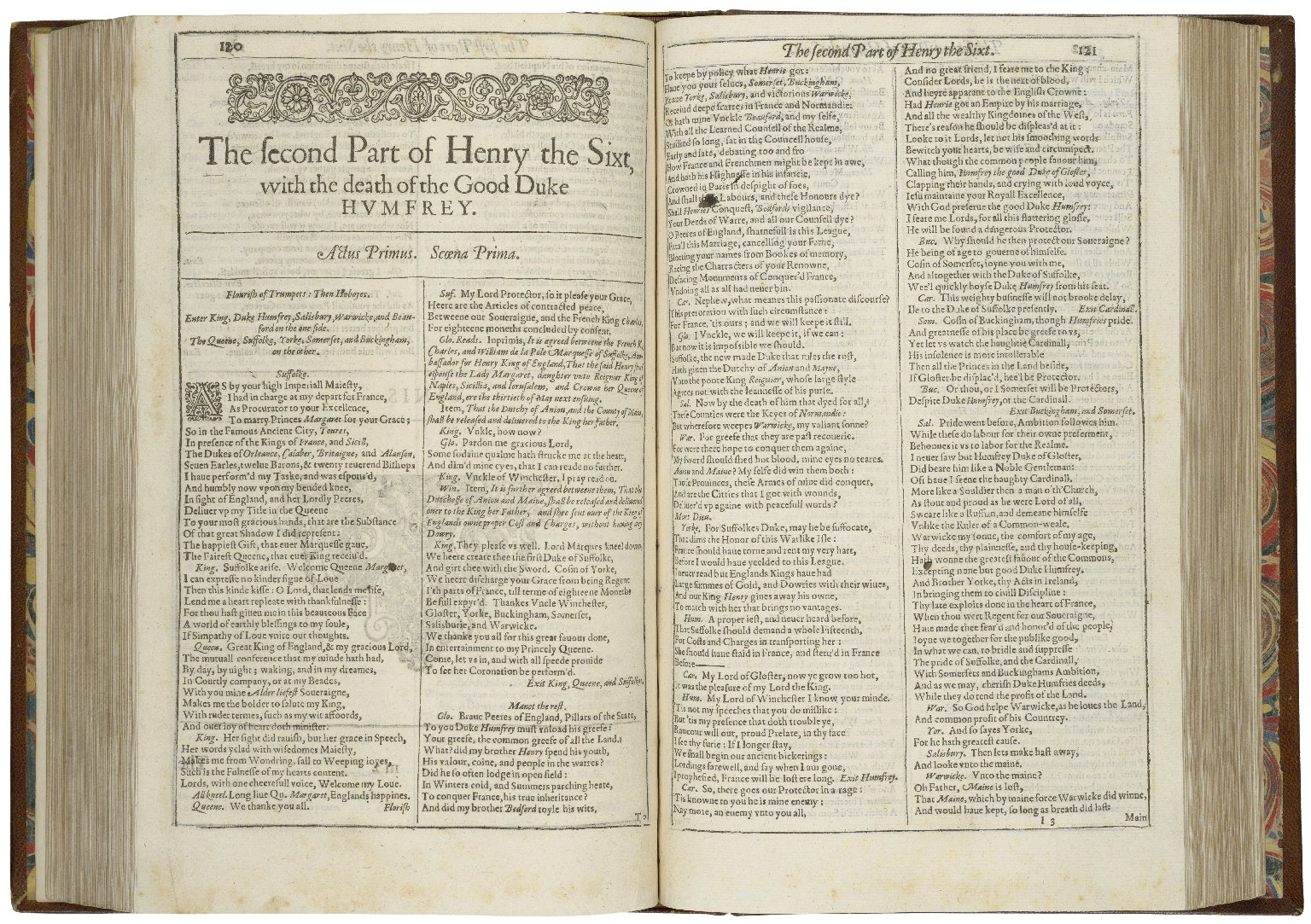 The first page of Shakespeare's Henry the Sixth, Part II, printed in the First Folio of 1623